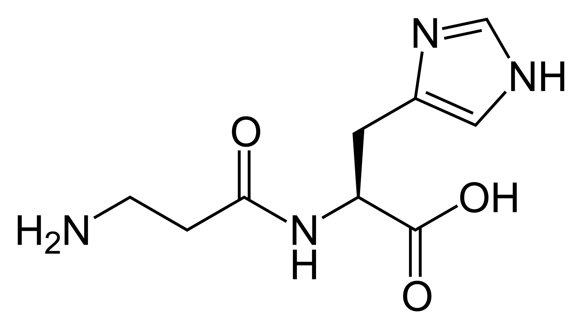 Skeletal formula of carnosine. Structure based on X-ray crystallographic determination from Acta Cryst. B (1977) 33, 2959-2961. Structure drawn in ChemBioDraw Ultra 12.0.